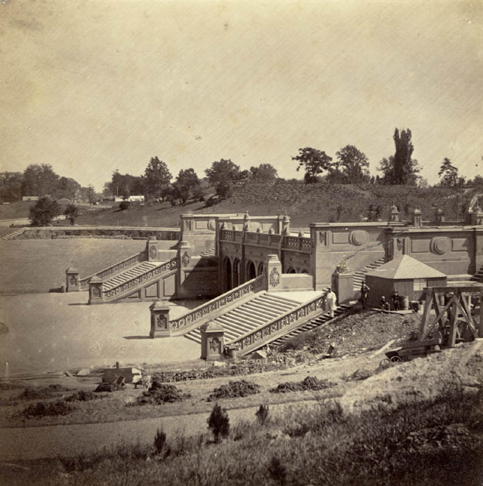 Bethesda Terrace and Fountain, Central Park by Victor Prevost, 1862.